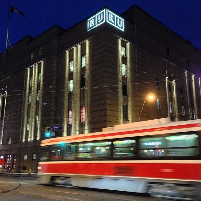 Good evening #toronto #ttc #mlg